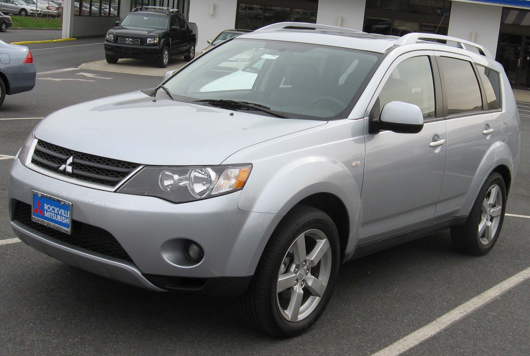 2007 Mitsubishi Outlander photographed in USA.